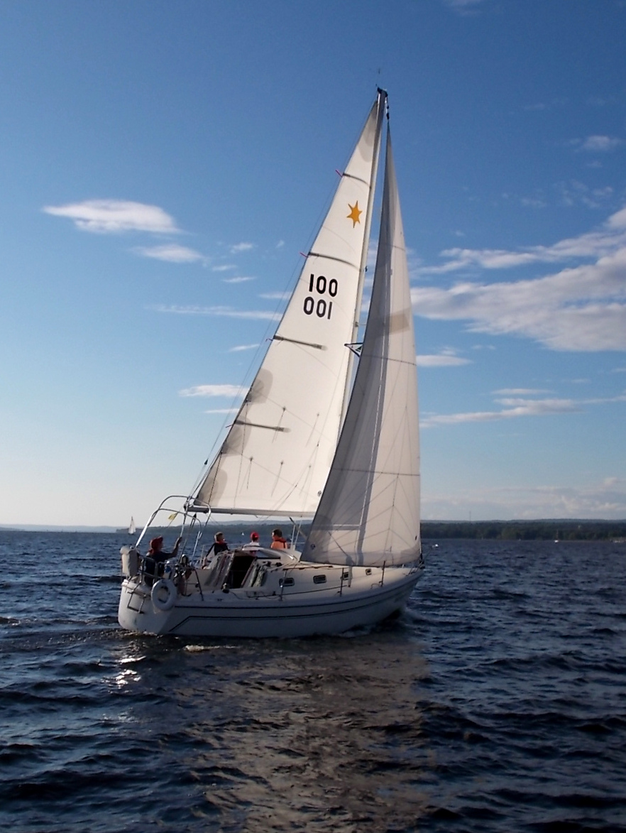 Sirius 28 sailboat Risky Business on Lac Deschênes, part of the Ottawa River, Ottawa, Ontario, Canada